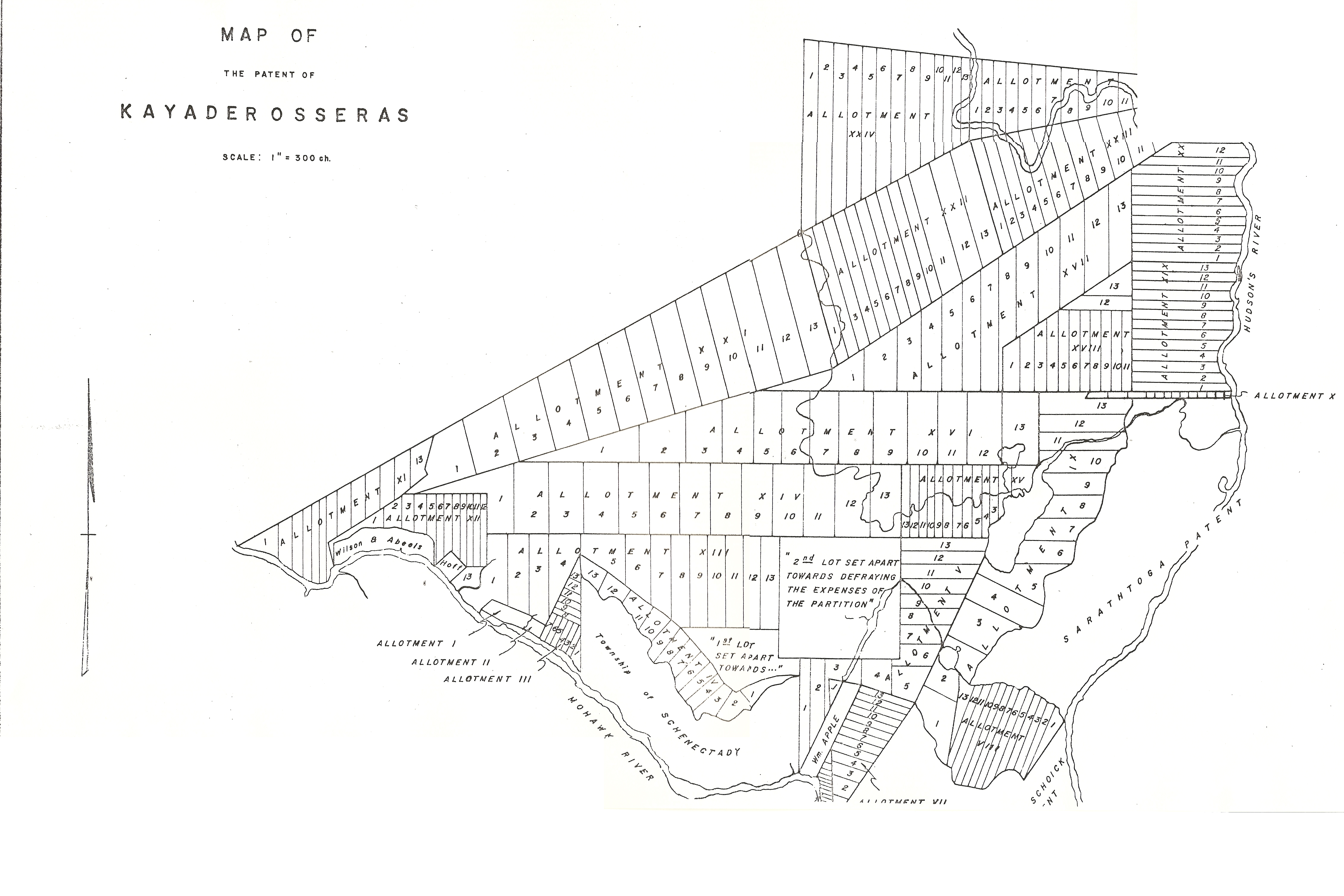 Map of the Kayaderossseras Patent, Saratoga County, NY from original survey book Other information Pieced together from three partial photocopies, with notations on copies (not original)removed.